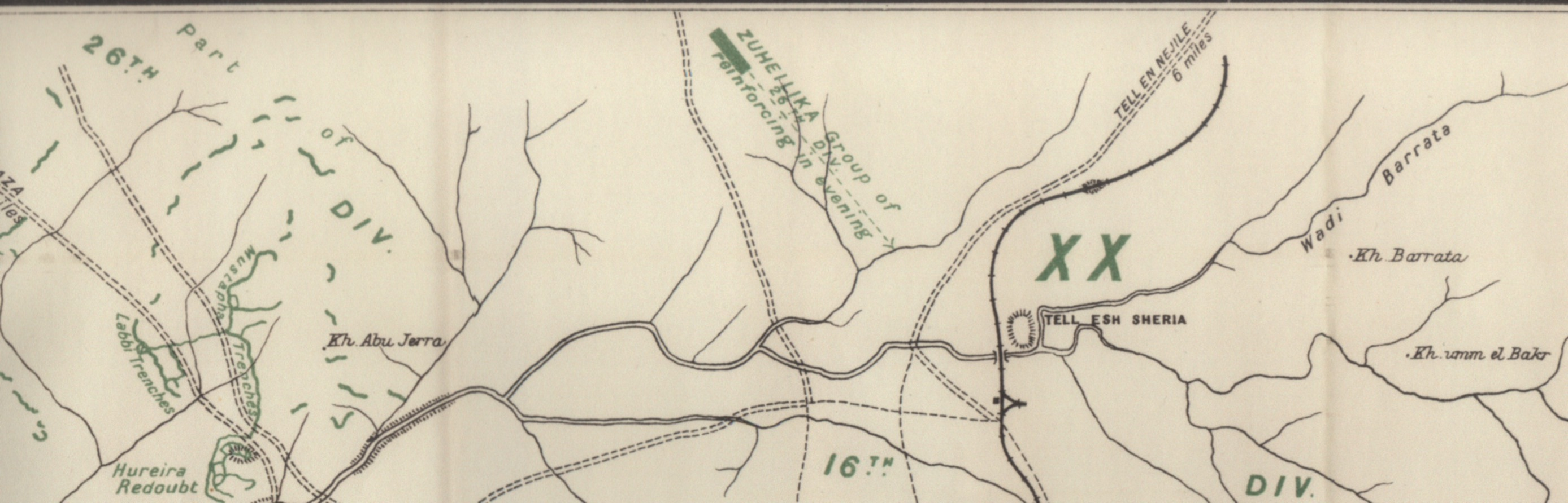 Detail of Falls Map 8 Attack on Sheria 6 November 1917